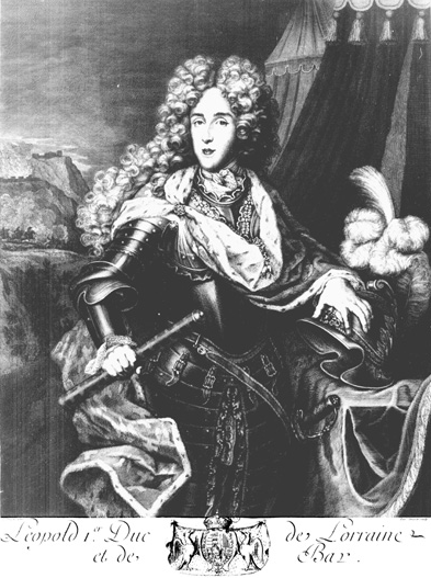 Drawing of Léopold I of Lorraine by an known artist